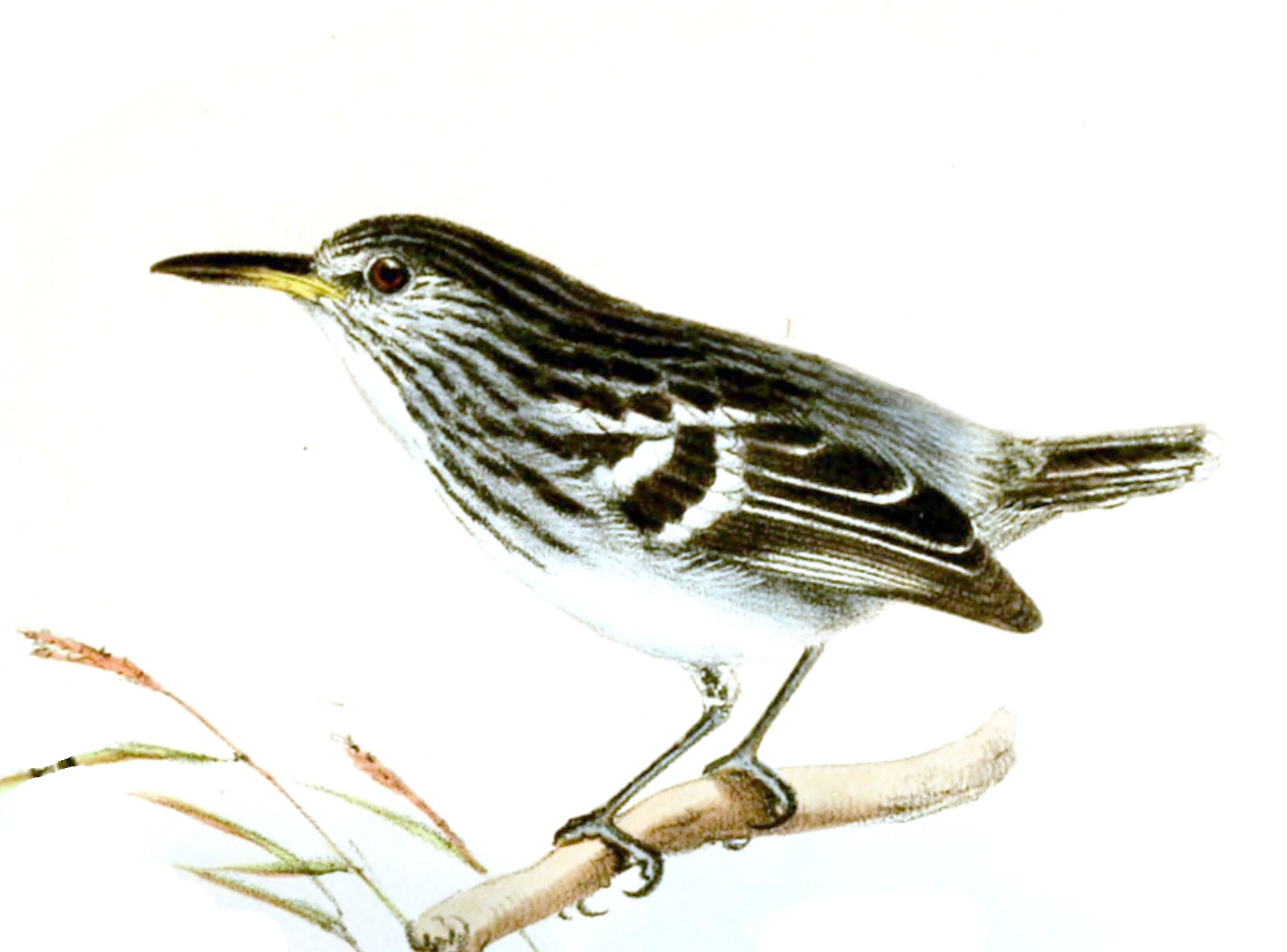 1 Myrmotherula surinamensis (above)